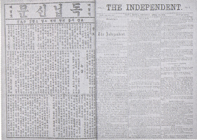 The Independent news 1897.04.07 Friday